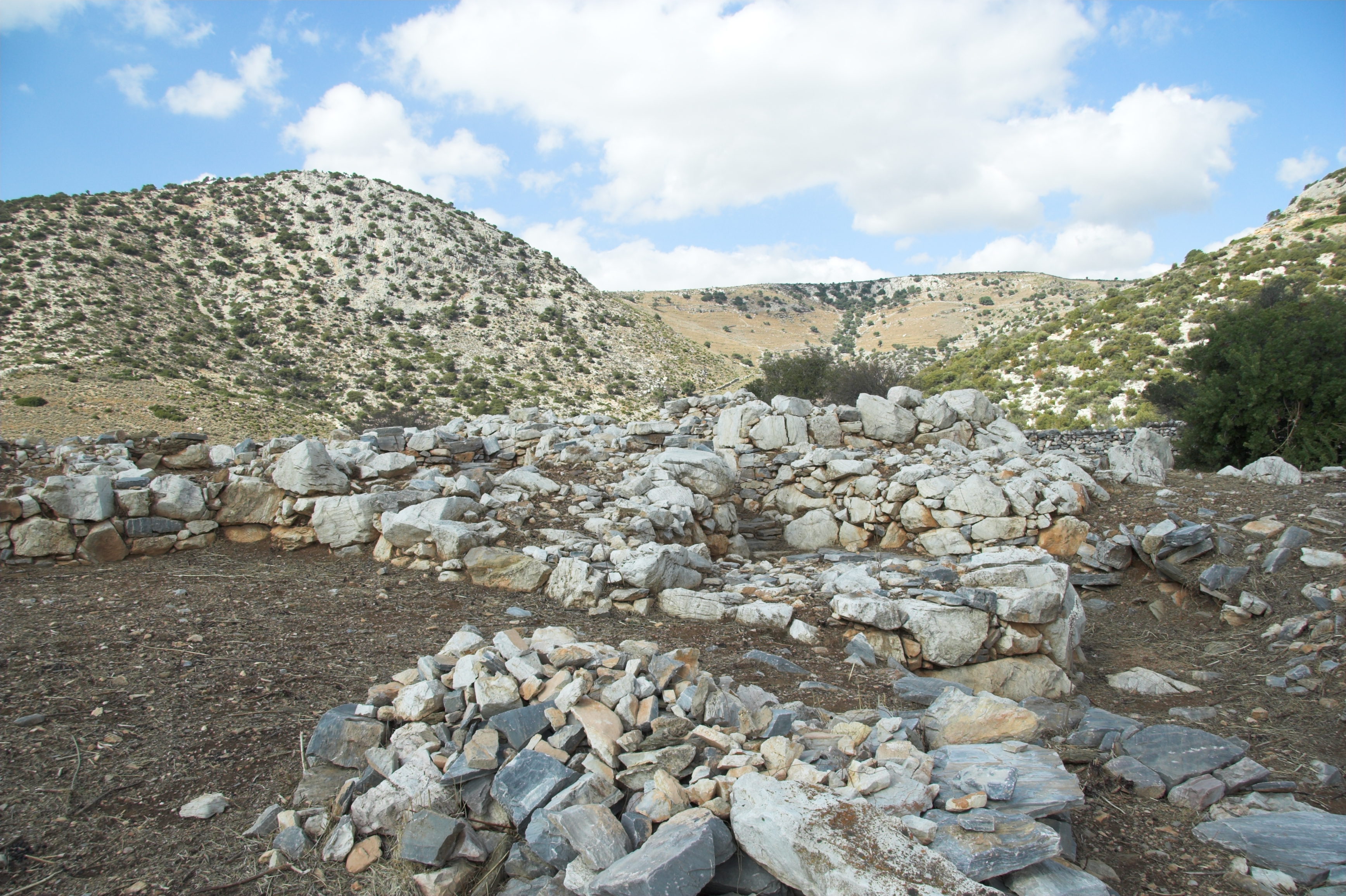 Early Cycladic settlement in Korfari ton Amygdalon over the bay of Panormos, Naxos. Early Bronze Age.